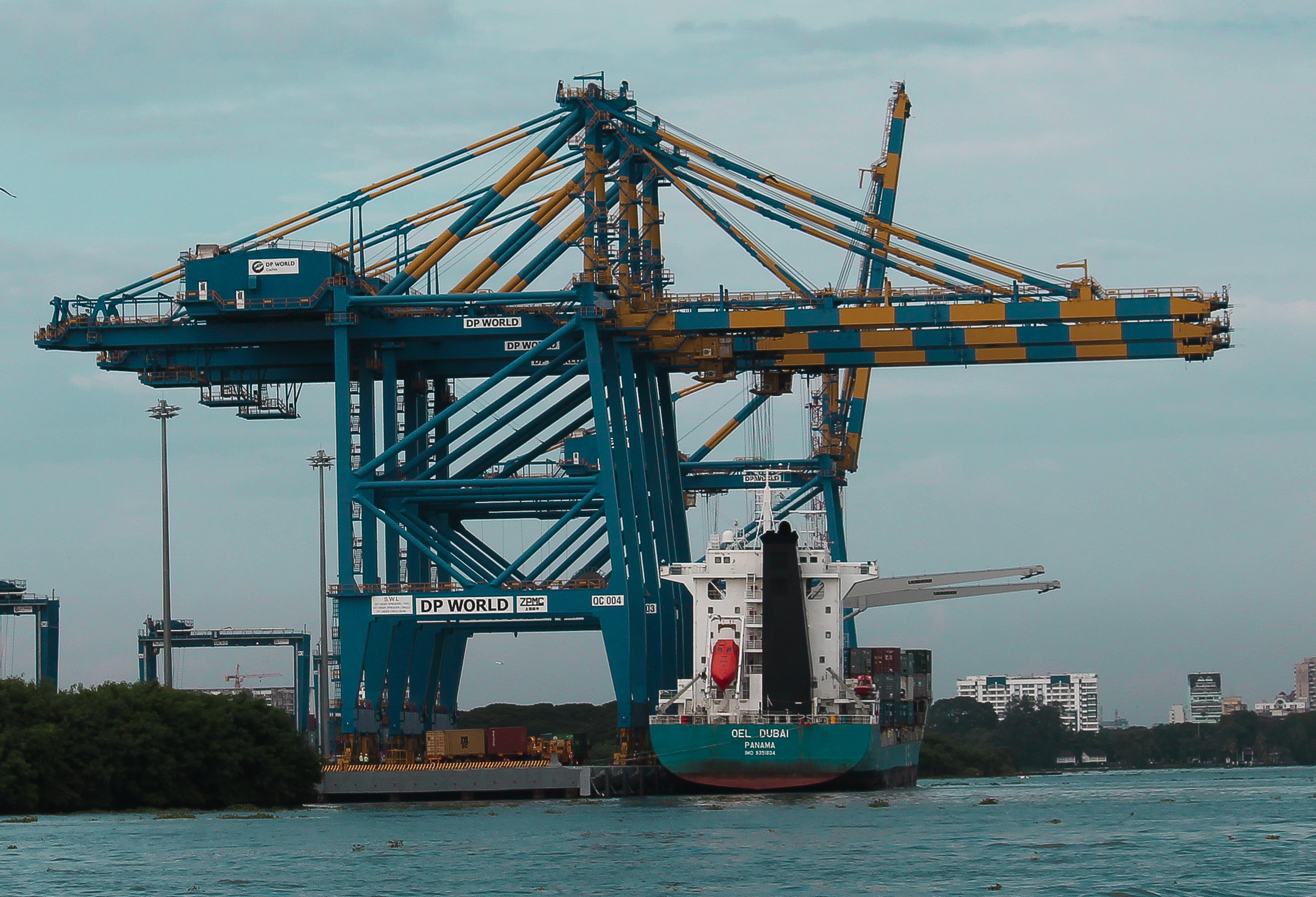 Cochin International Container Transhipment Terminal. View from Vypin Jetty. Containers are being unloaded from a Ferry.